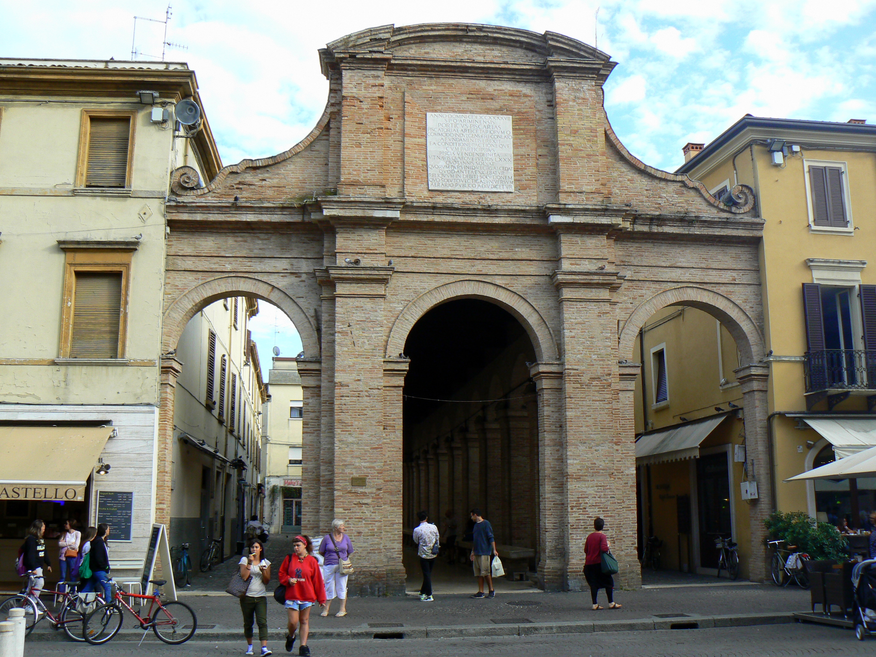 Vecchia Pescheria in Rimini This is a photo of a monument which is part of cultural heritage of Italy.